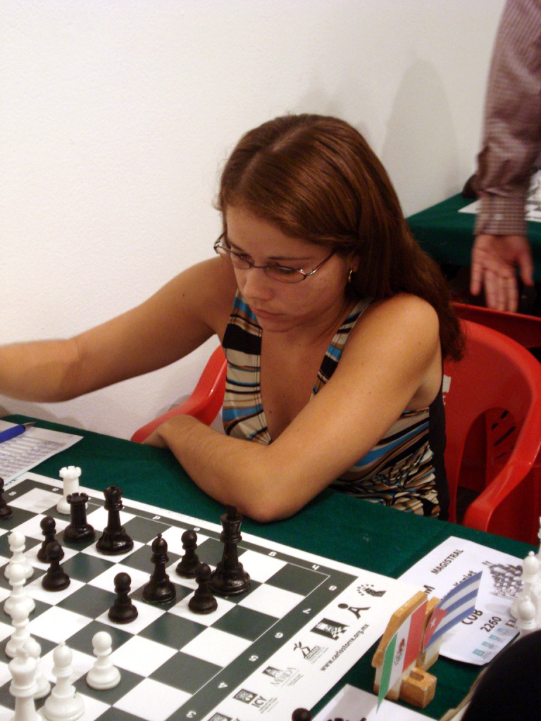 WGM Yaniet Marrero Lopez Cuba, Merida 2008.